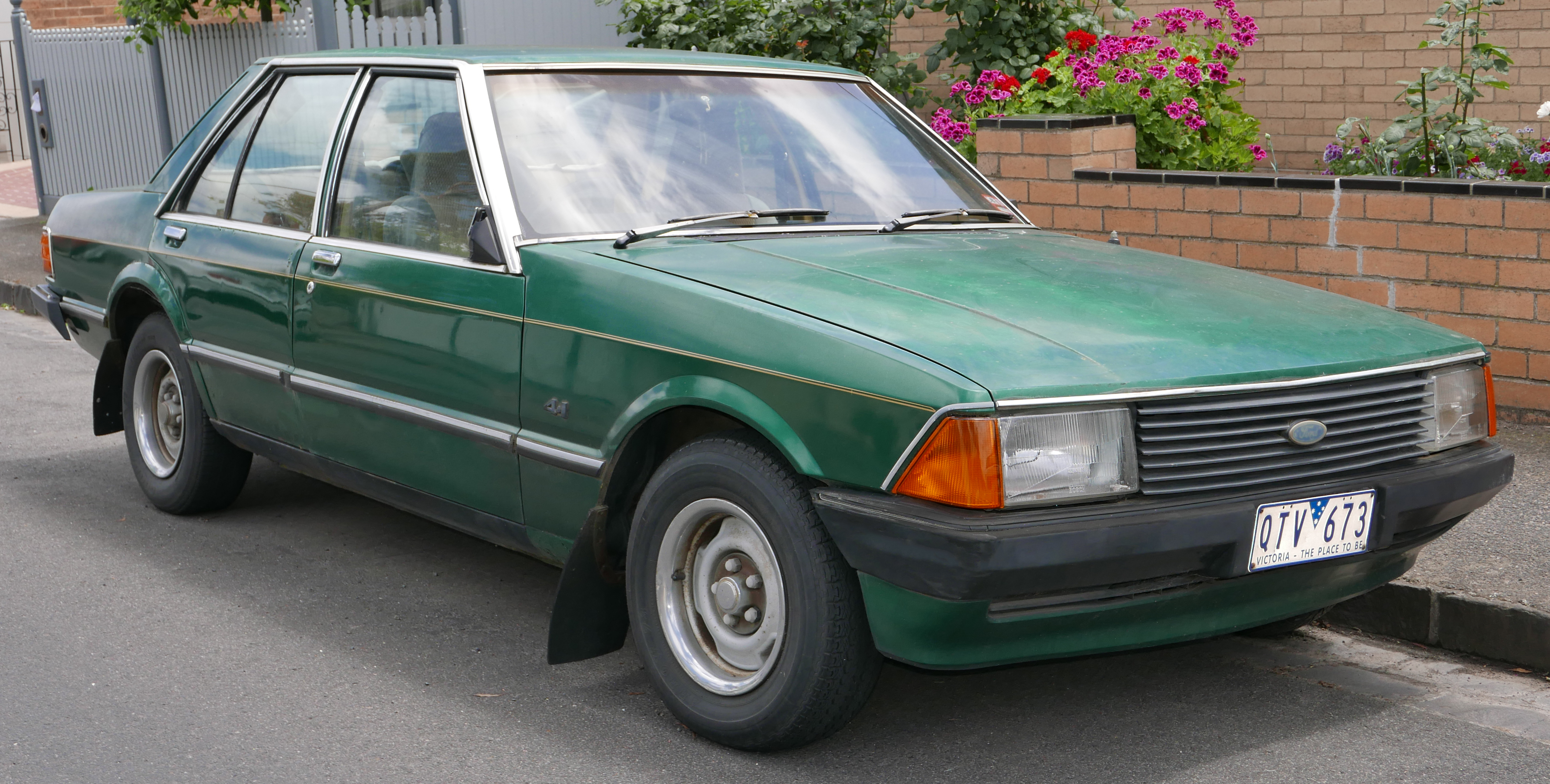 1979 Ford Fairmont (XD) sedan. Photographed in Brunswick, Victoria, Australia. Vehicle registration enquiry results Jurisdiction Victoria Registration QTV673 Chassis code Not available Engine code JG42XR34054C Compliance date Not available Year of manufacture 1979